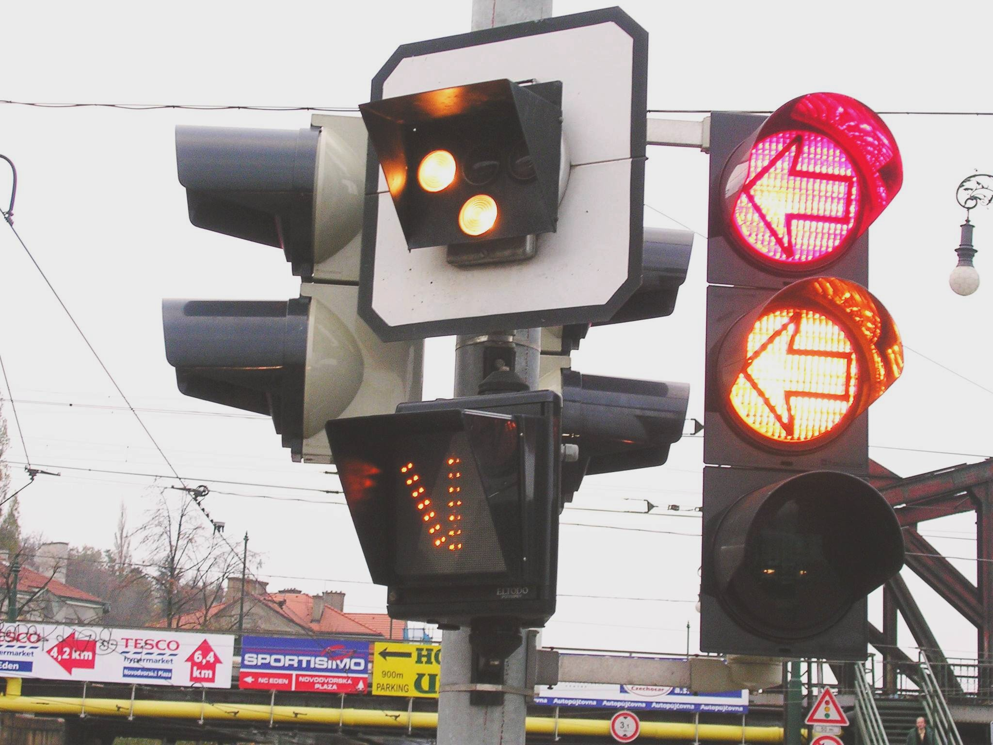 New Town, Prague, the Czech Republic. Traffic signals.